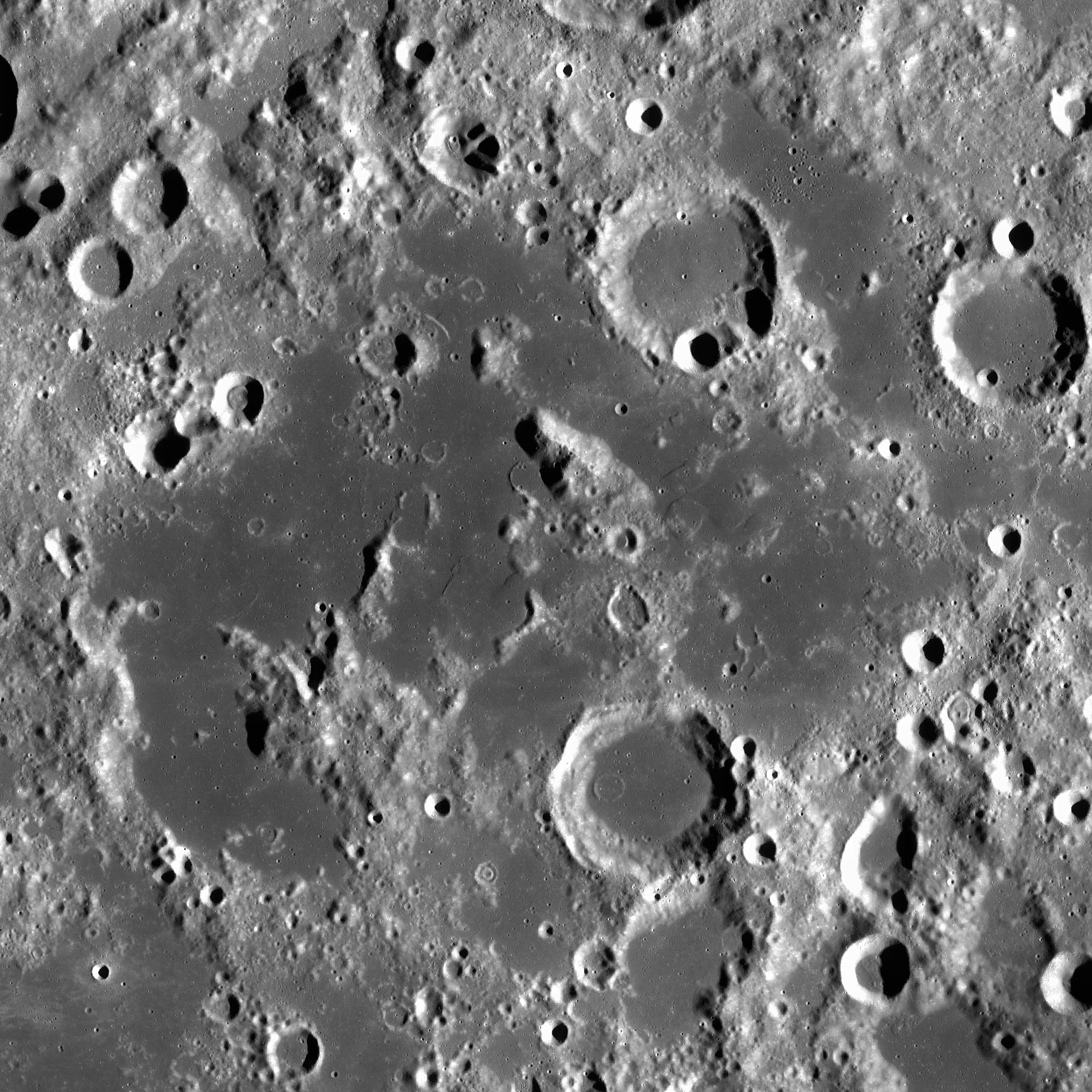 Mare Undarum on the Moon. Mosaic of photos by Lunar Reconnaissance Orbiter, made with Wide Angle Camera. Size of the image is 280×280 km, north is up.